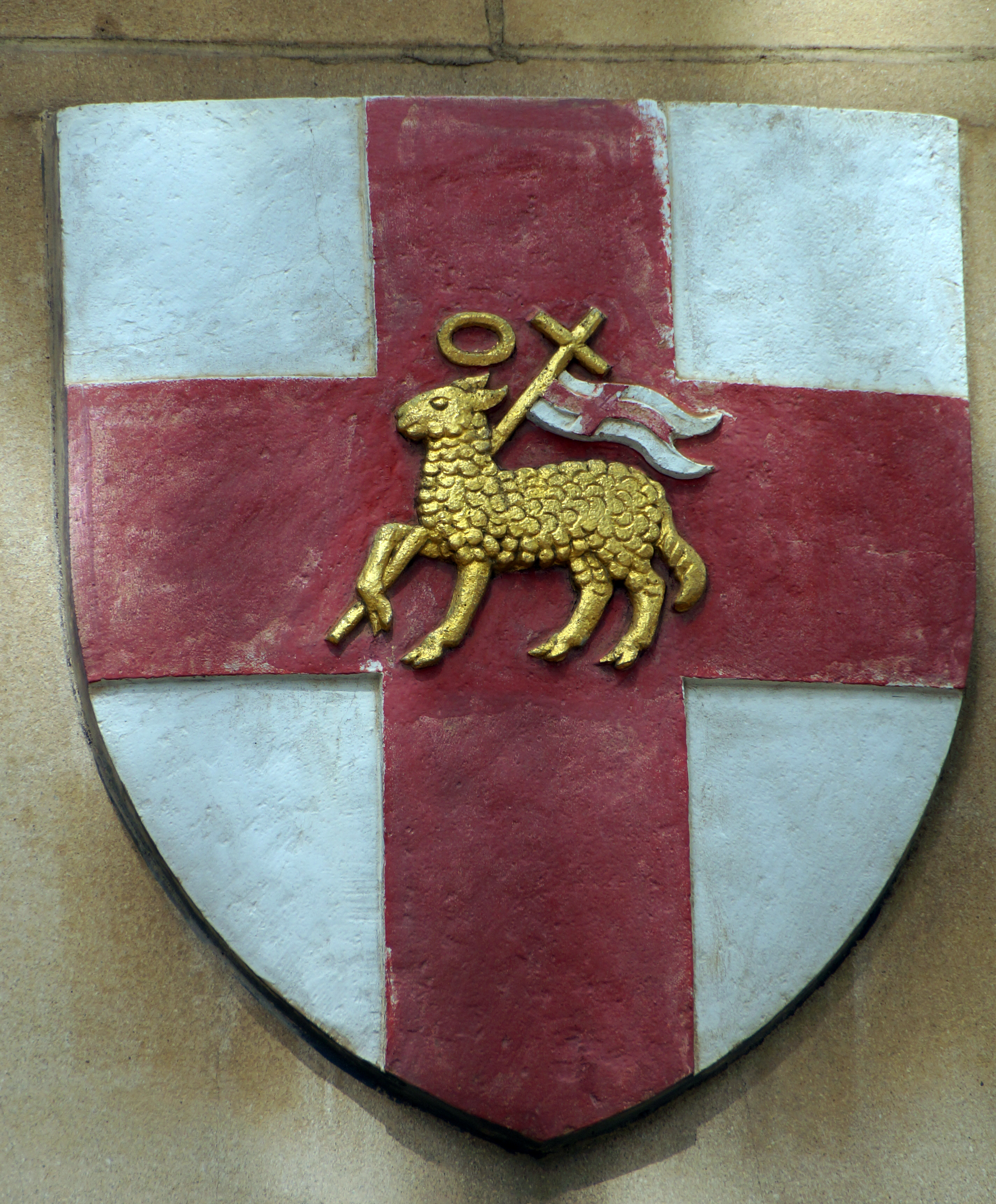 Sculpture of heraldic shields on the Fountain Court building, Steelhouse Lane, Birmingham, England by local sculptor William Bloye, 1964.